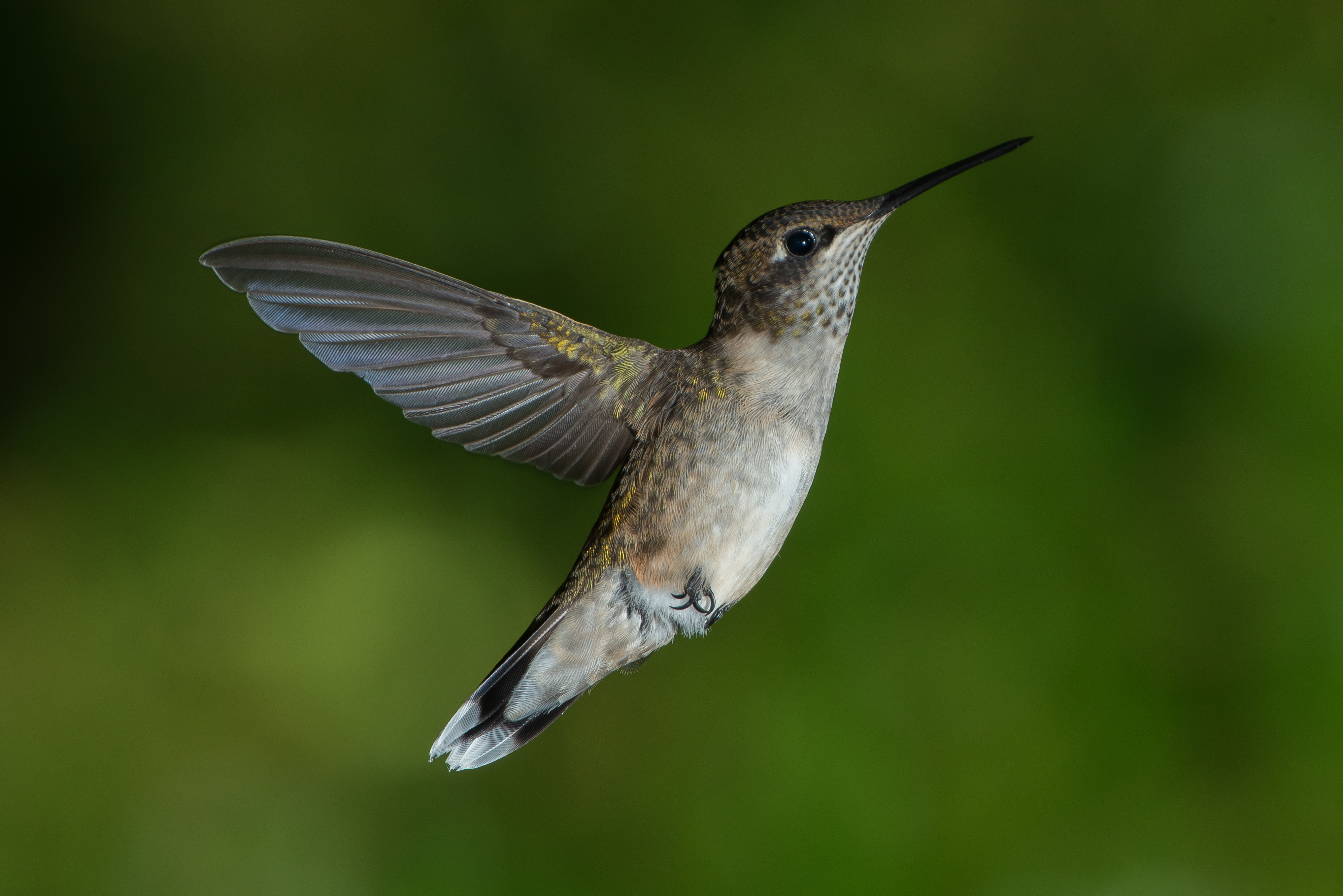 Juvenile male ruby-throated hummingbird (Archilochus colubris).